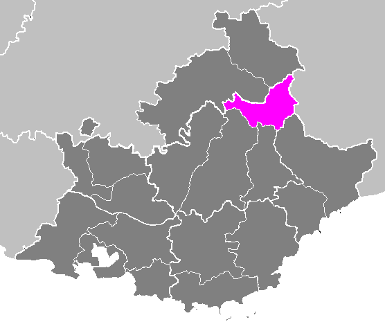 Maps of arrondissements and cantons of France: Arrondissement de Barcelonnette.PNG